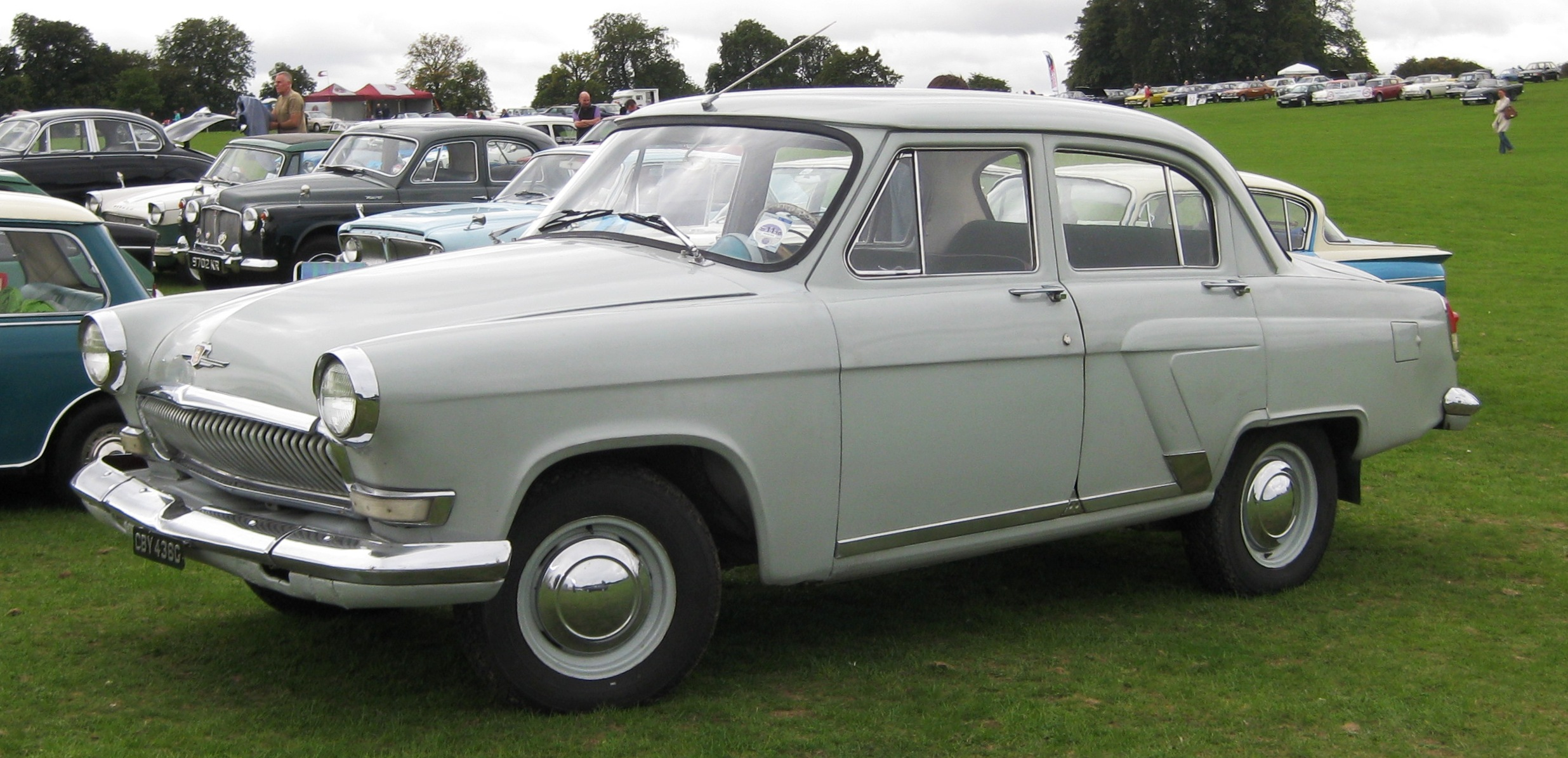 Volga - Gaz-21 Series 3 at Knebworth classic car show.